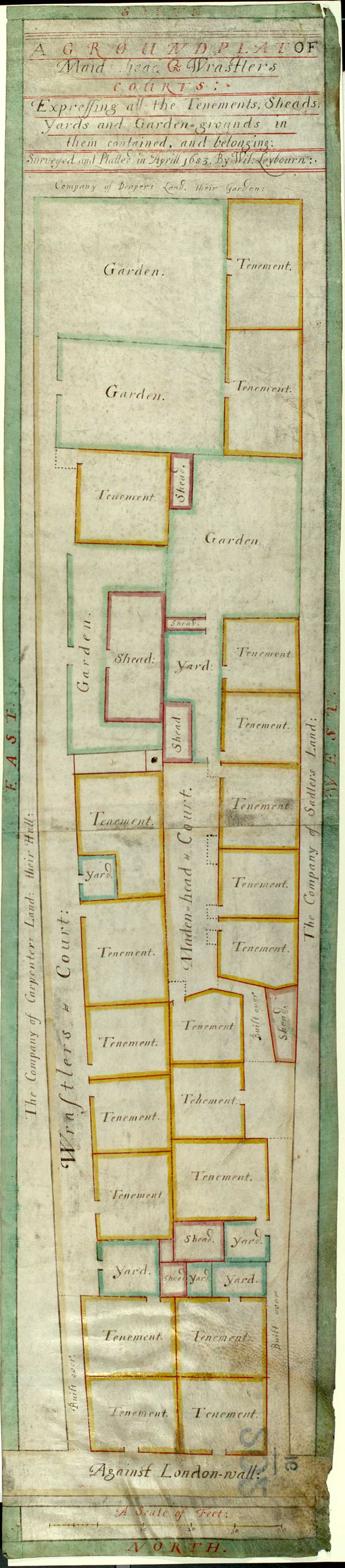 Tenement Plans drawn by William Leybourn in 1683